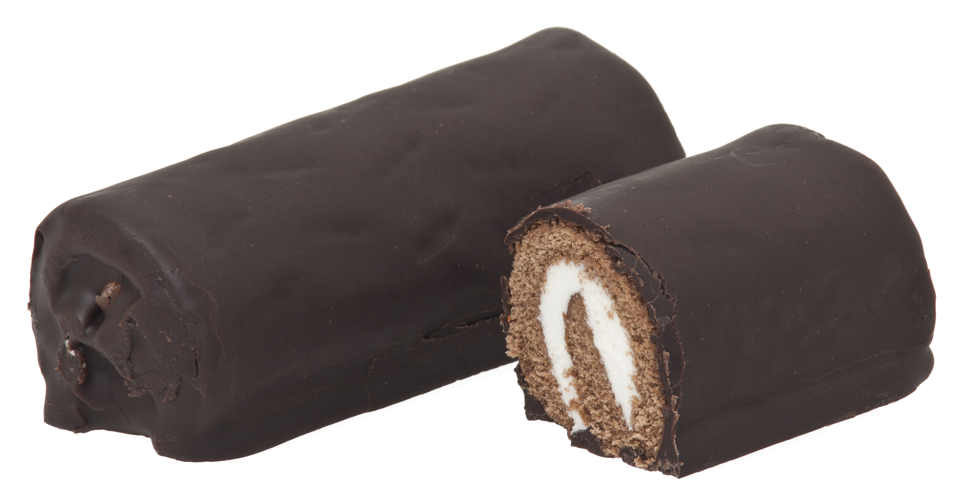 Drake's Yodels snack cakes. The same as Little Debbie Ho-Hos or as swiss cake rolls. Sold in America.